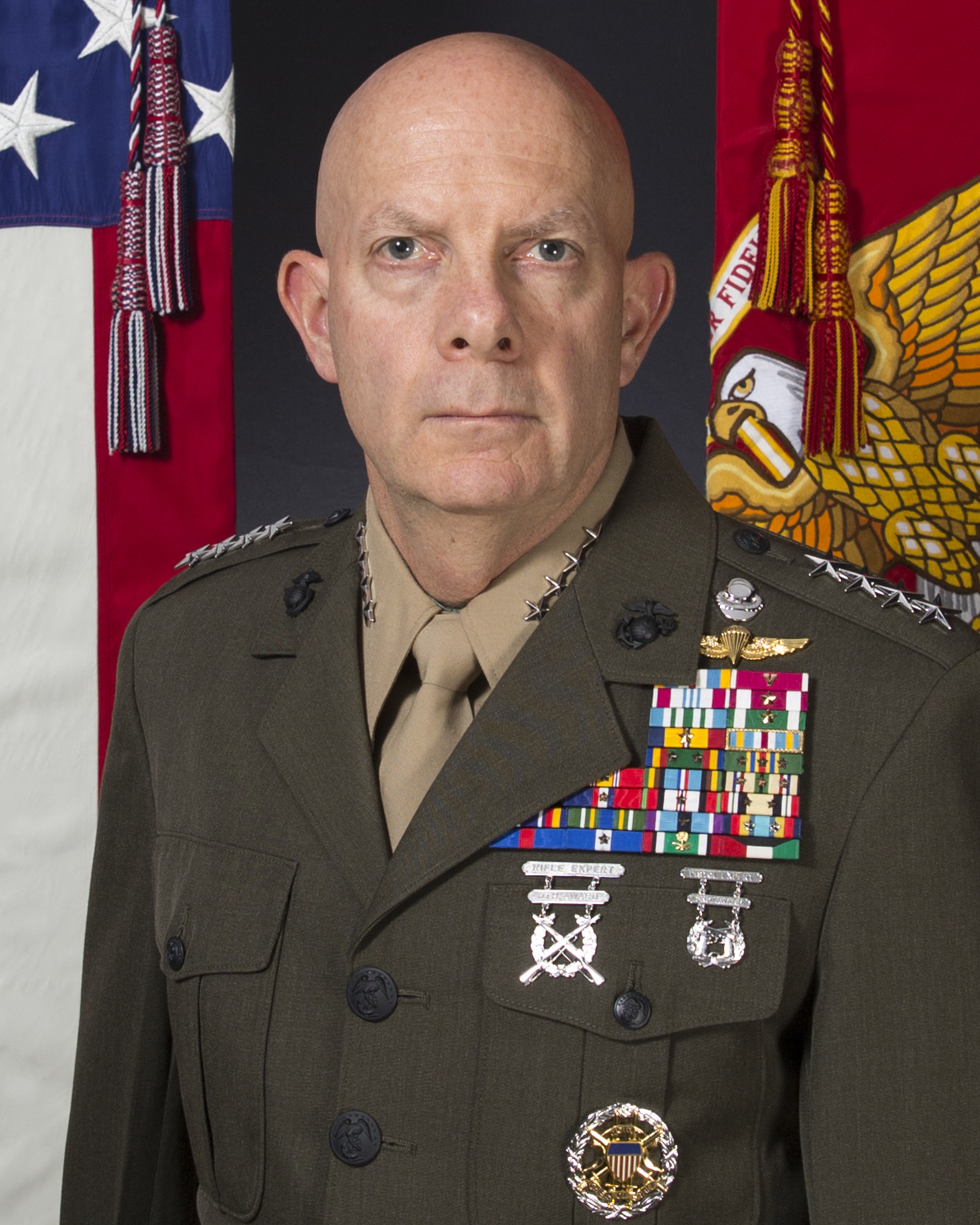 Gen. David H. Berger, 38th Commandant of the Marine Corps